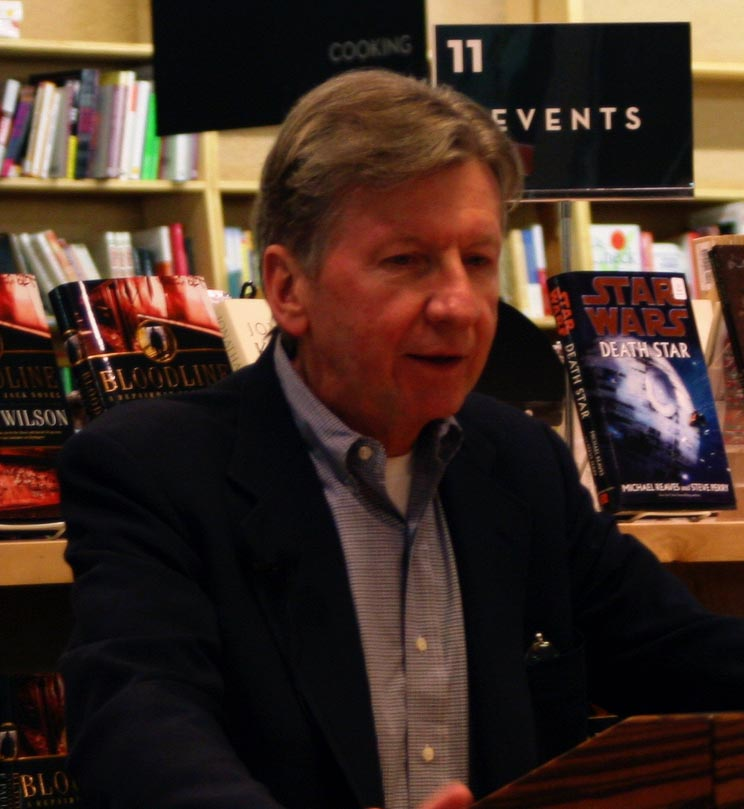 F. Paul Wilson at Powells in Portland, OR.